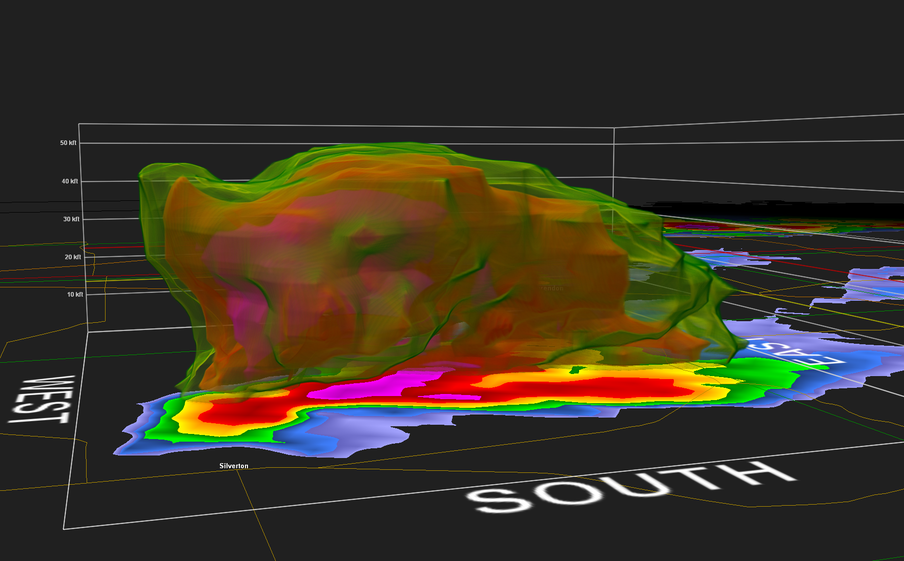 A screenshot I made with GR2Analyst of a storm just north of Silverton, TX. Was bored & goofing off...